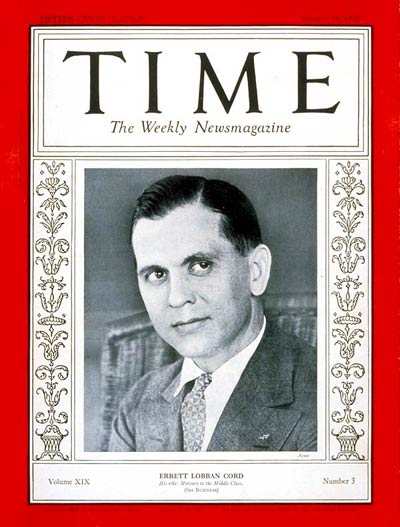 Industrialist Errett Lobban Cord on the cover of Time Magazine, January 18, 1932. Works copyrighted before 1964 had to have the copyright renewed sometime in the 28th year. If the copyright was not renewed the work is in the public domain. It is best to search 6 months before and after the required year. Some magazines are published the month before the cover date and some registrations may be delayed for a few months. This January 18, 1932 issue of Time would have to be renewed in 1959. Online page scans of the Catalog of Copyright Entries, published by the US Copyright Office can be found here. The search of the Renewals for Periodicals for 1958, 1959 and 1960 show no renewal entries for Time. The publishers, Time Inc., started renewing the copyrights of Time magazine in 1964 with the July 6, 1936 issue. Most (if not all) issues that were published before July 1936 are in the public domain. The copyright on this magazine was not renewed and it is in the public domain.